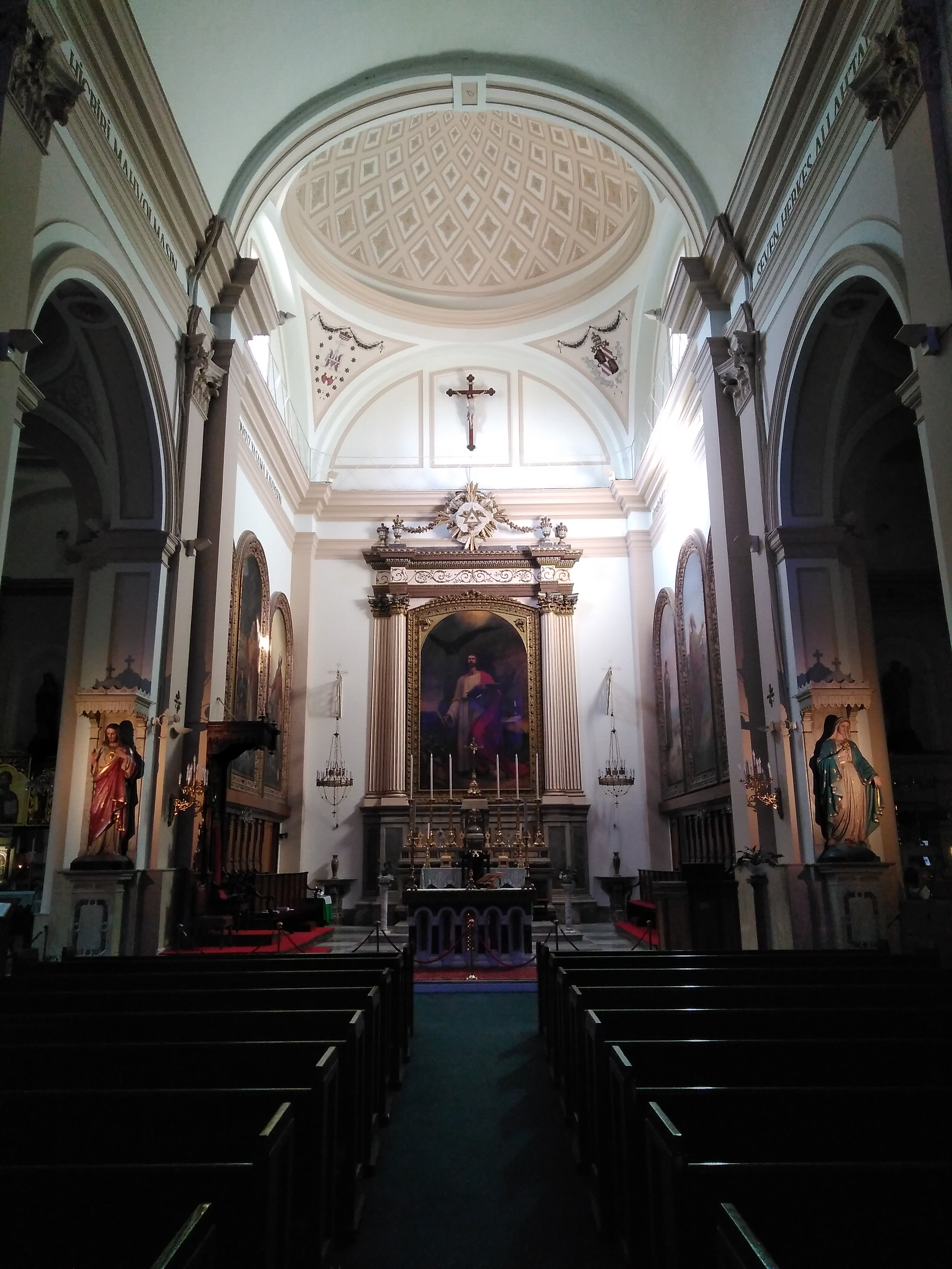 St. John's Cathedral (Izmir)